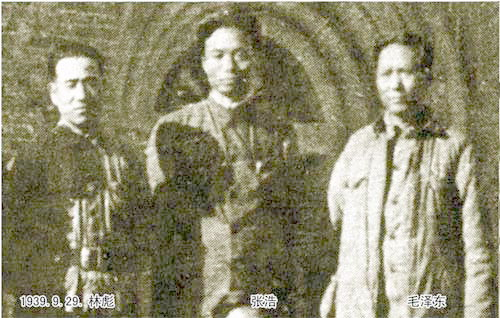 1939 Lin Yueyin Lin Biao Mao Zedong. 林育英(化名张浩) 赴莫斯科，任全国总工会驻赤色职工国际代表，中共中央驻共产国际代表团成员。